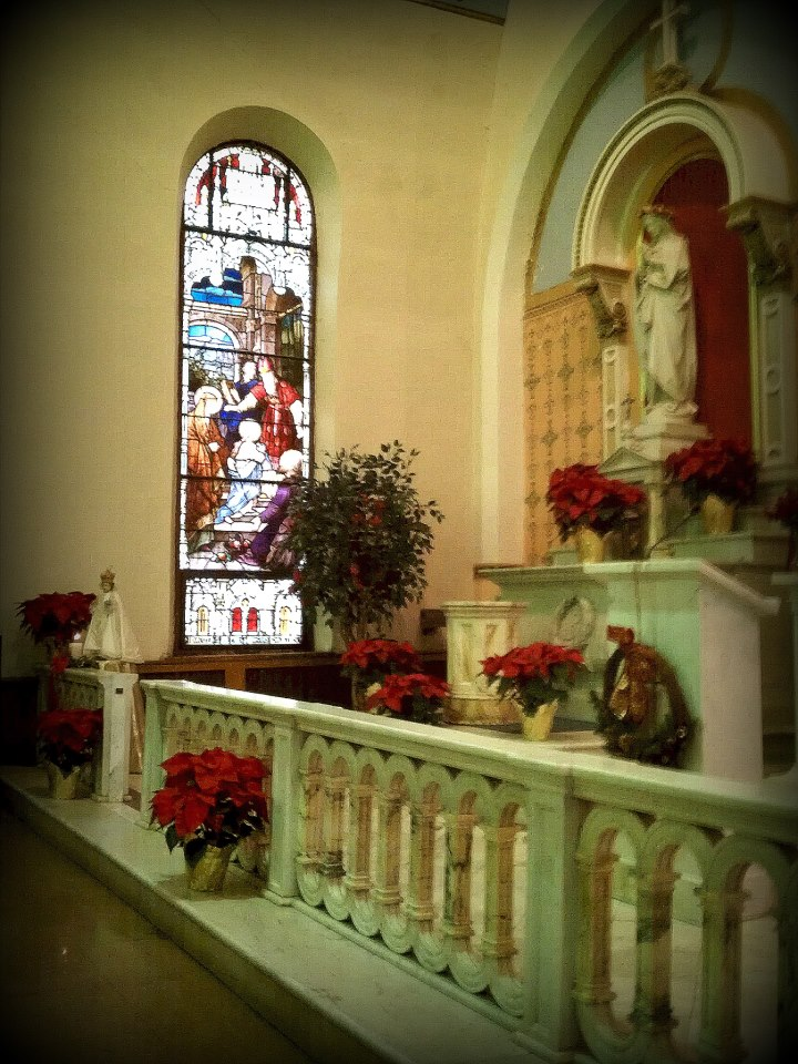 A picture of the shrine to Mary at Immaculate Conception Church in Northern Liberties, Philadelphia, decorated for Christmas 2010 with a stained glass window and the Infant of Prague Statue in the background.